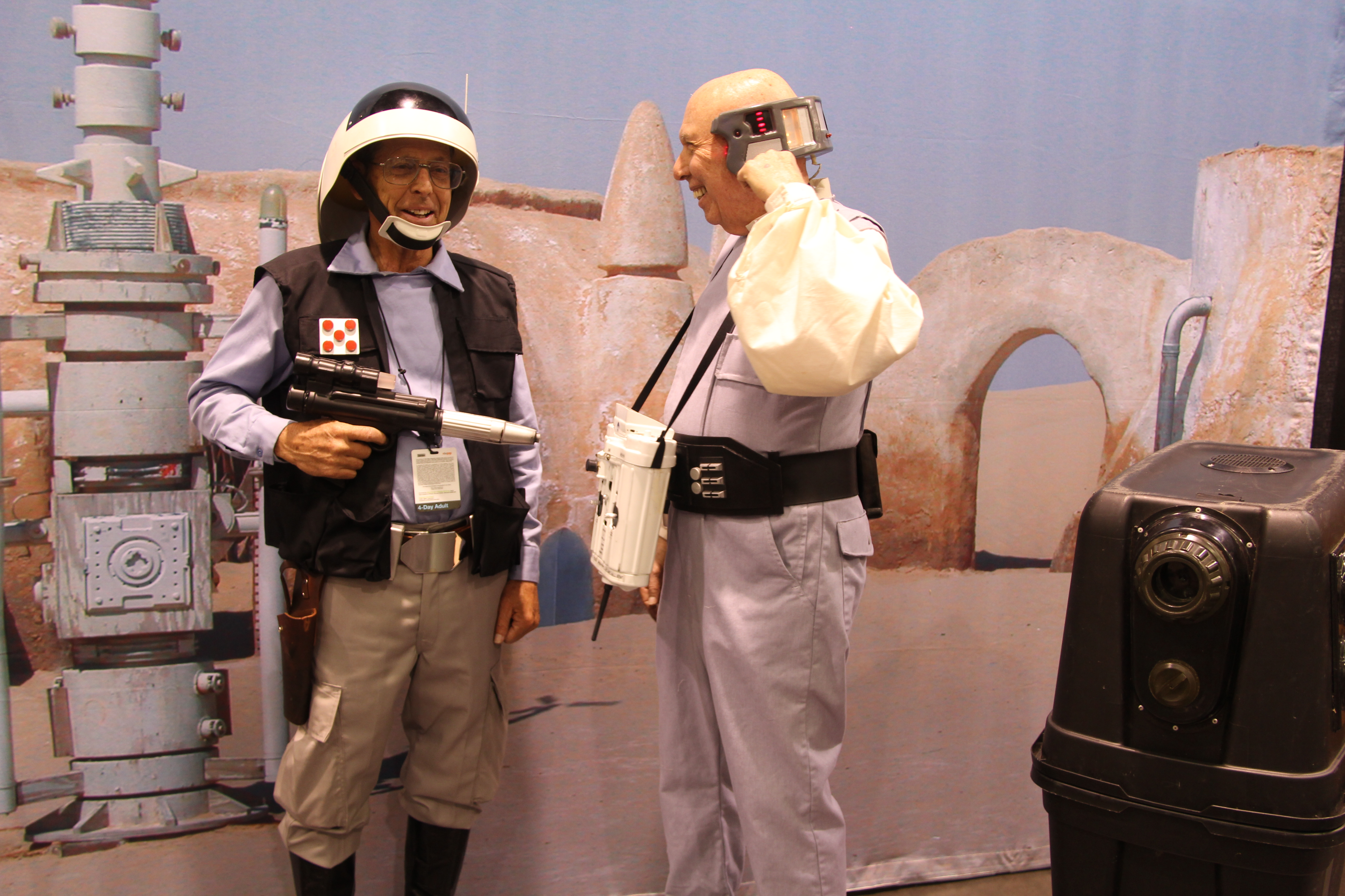 A cosplay of a Rebel [left] and Lobot [right] at Star Wars Celebration in Anaheim, April 2015.